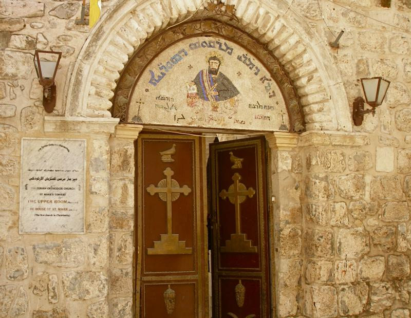 Entrance to St Mark's Syriac Orthodox Church